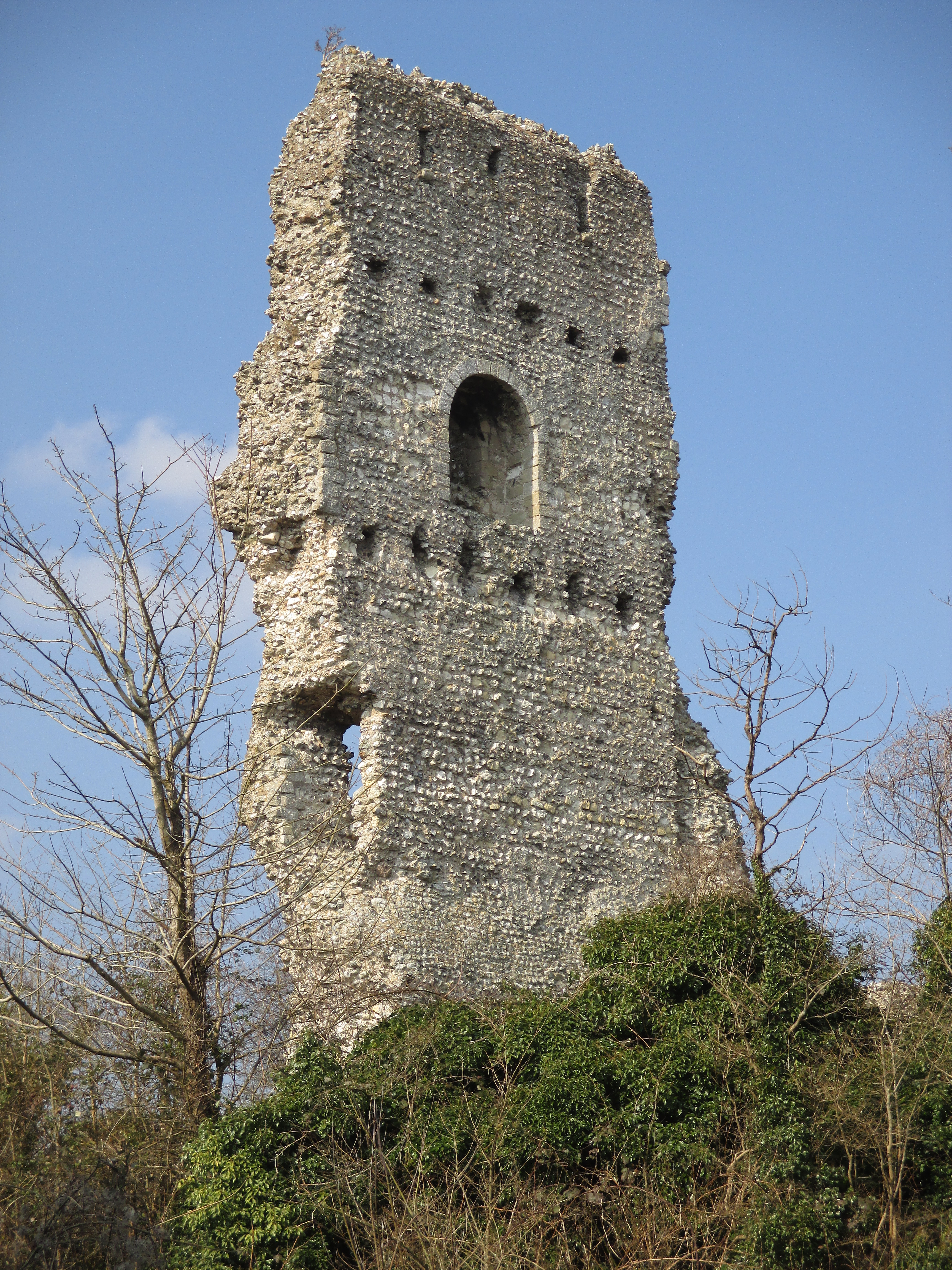 The remains of the gatehouse tower of Bramber Castle, West Sussex, seen from the churchyard of St. Nicholas' church, Bramber.